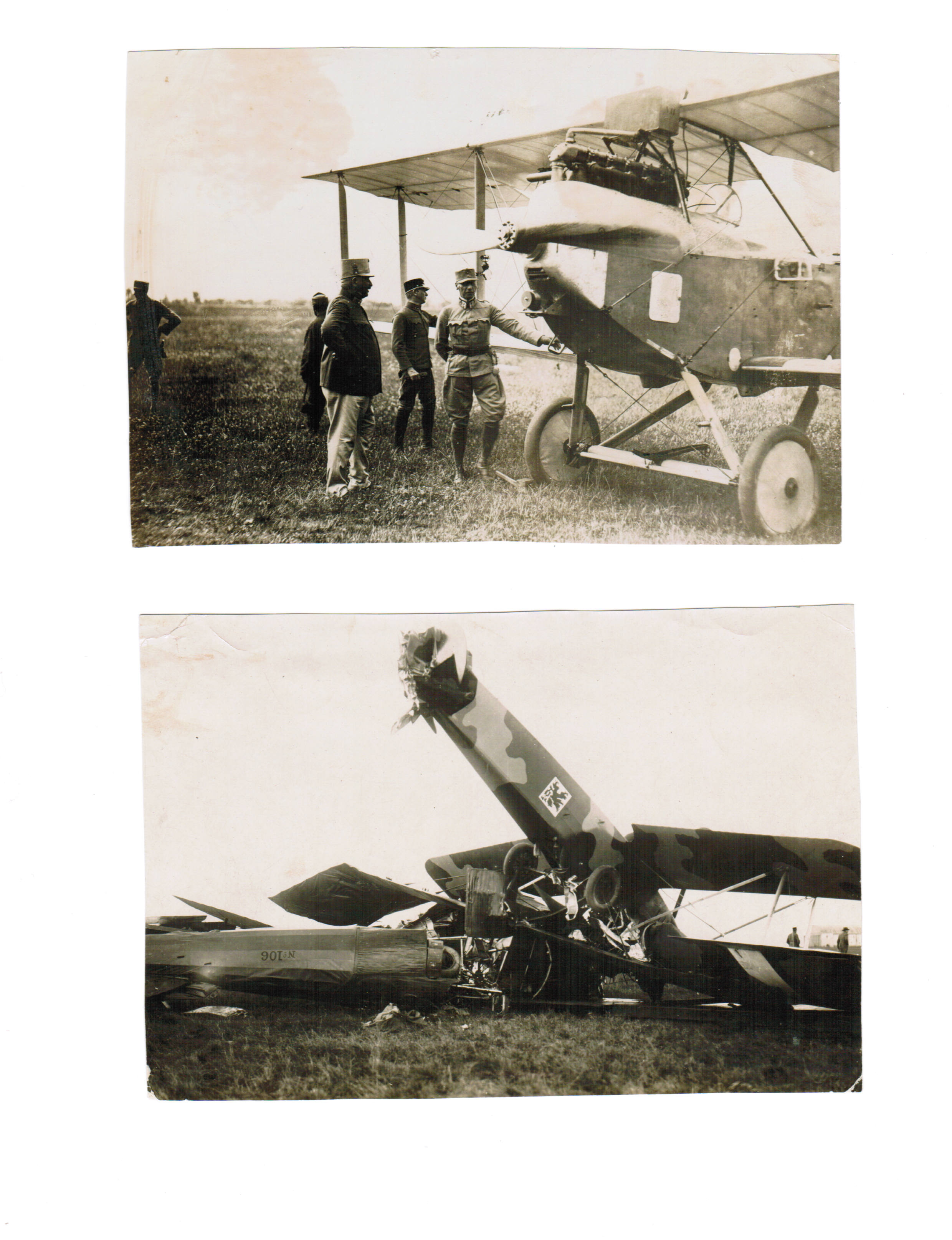 The upper photo is of Jindrich Kostrba pointing to his aircraft, "Arcikurze" in 1916. The lower photo is of the fatal crash on 24 February, 1926.